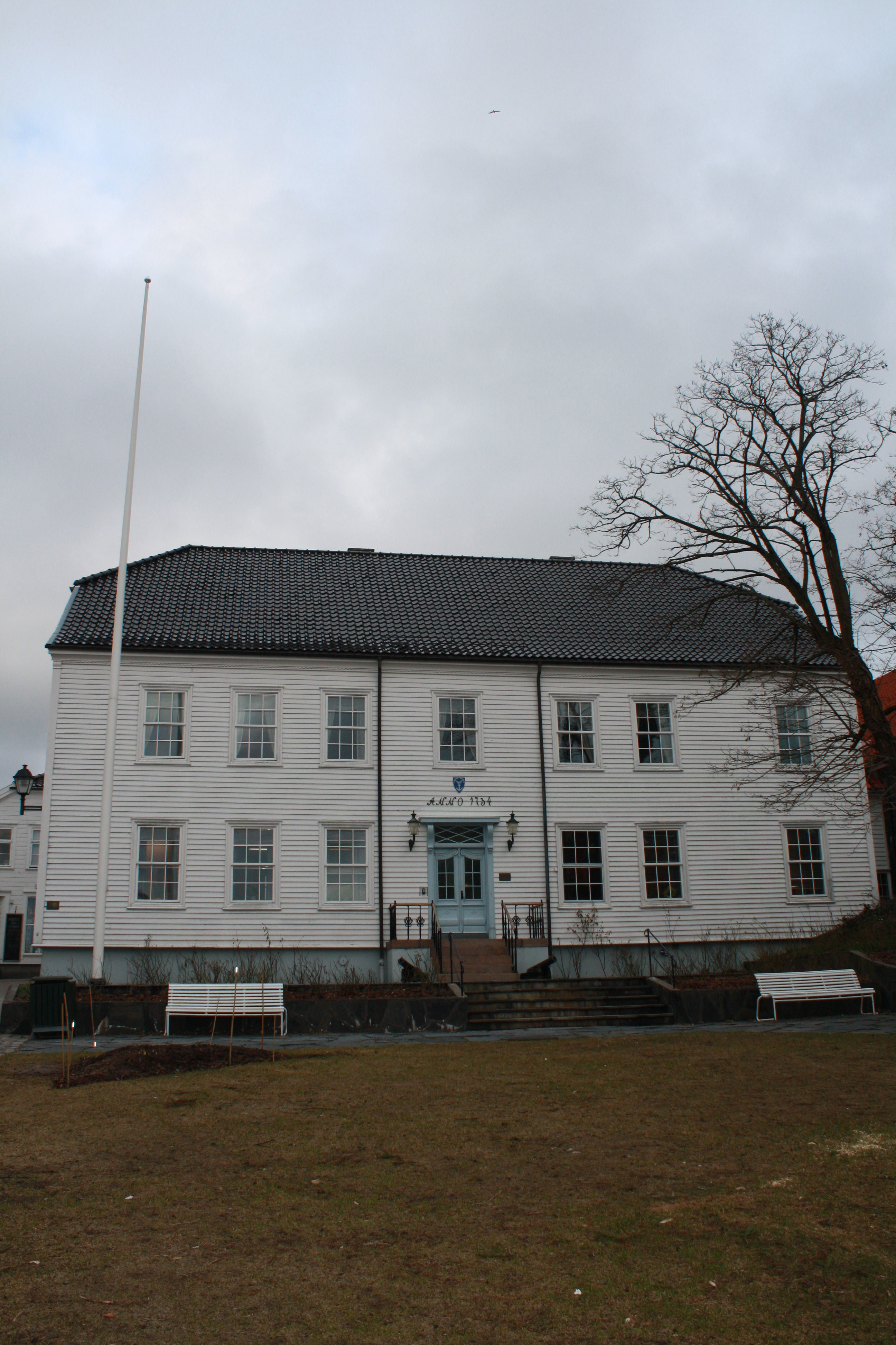 Lillesand county house